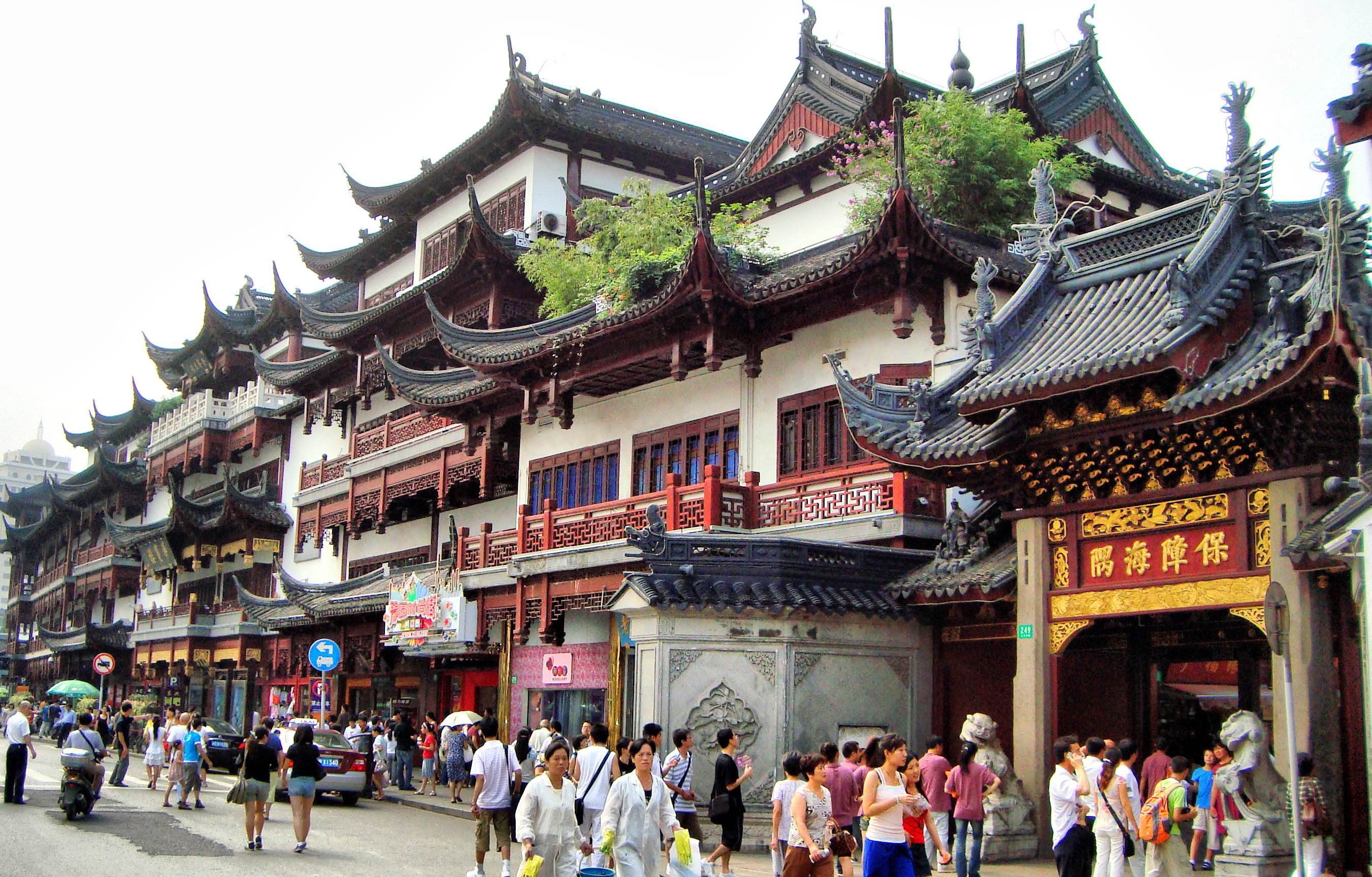 Shanghai-old city-China